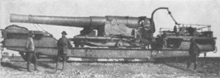 Photograph of British BL 9.2 inch gun at Belfast, northeast of Johannesburg, August 1900. It arrived too late to support the British at the Battle of Bergendal.